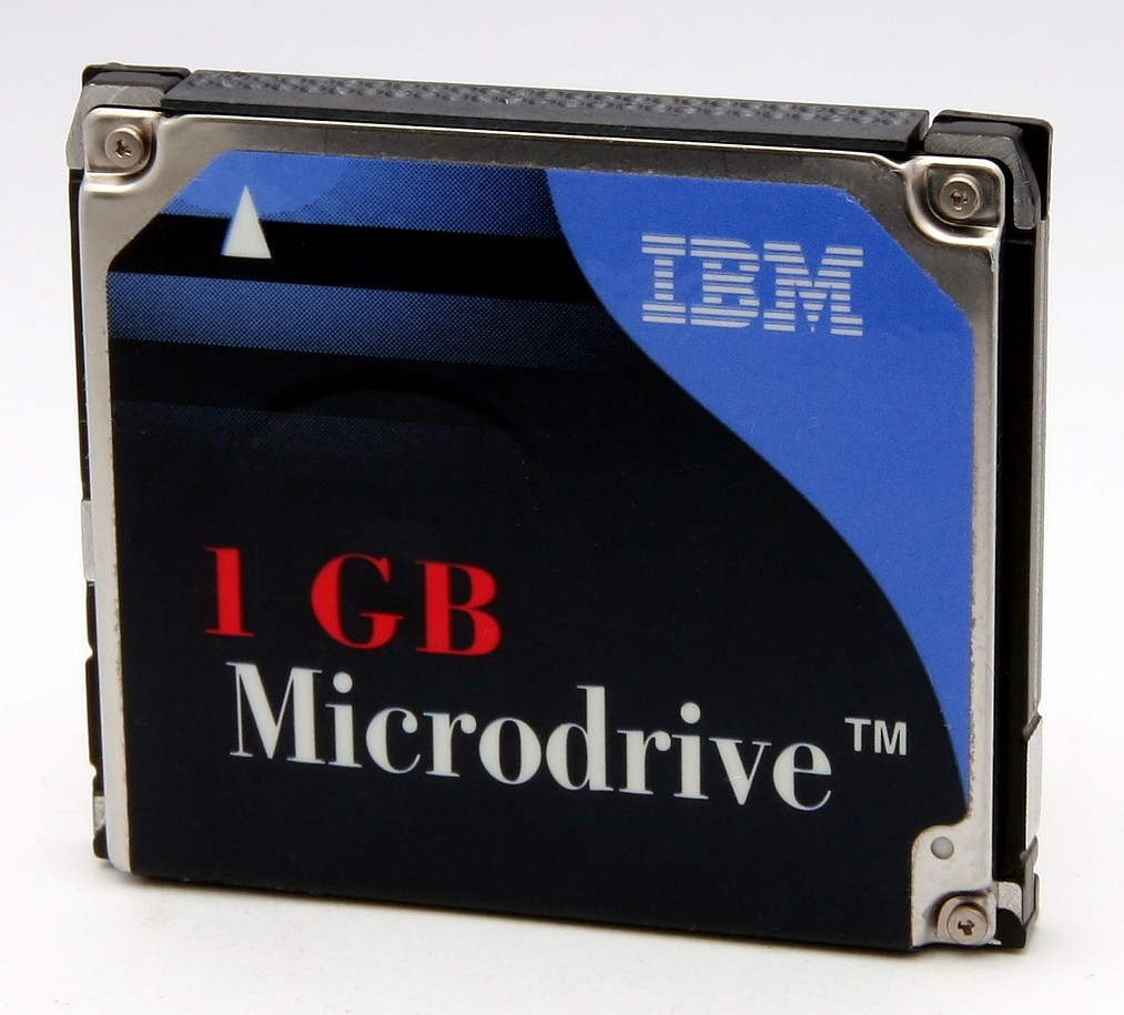 1 GByte IBM MicroDrive.